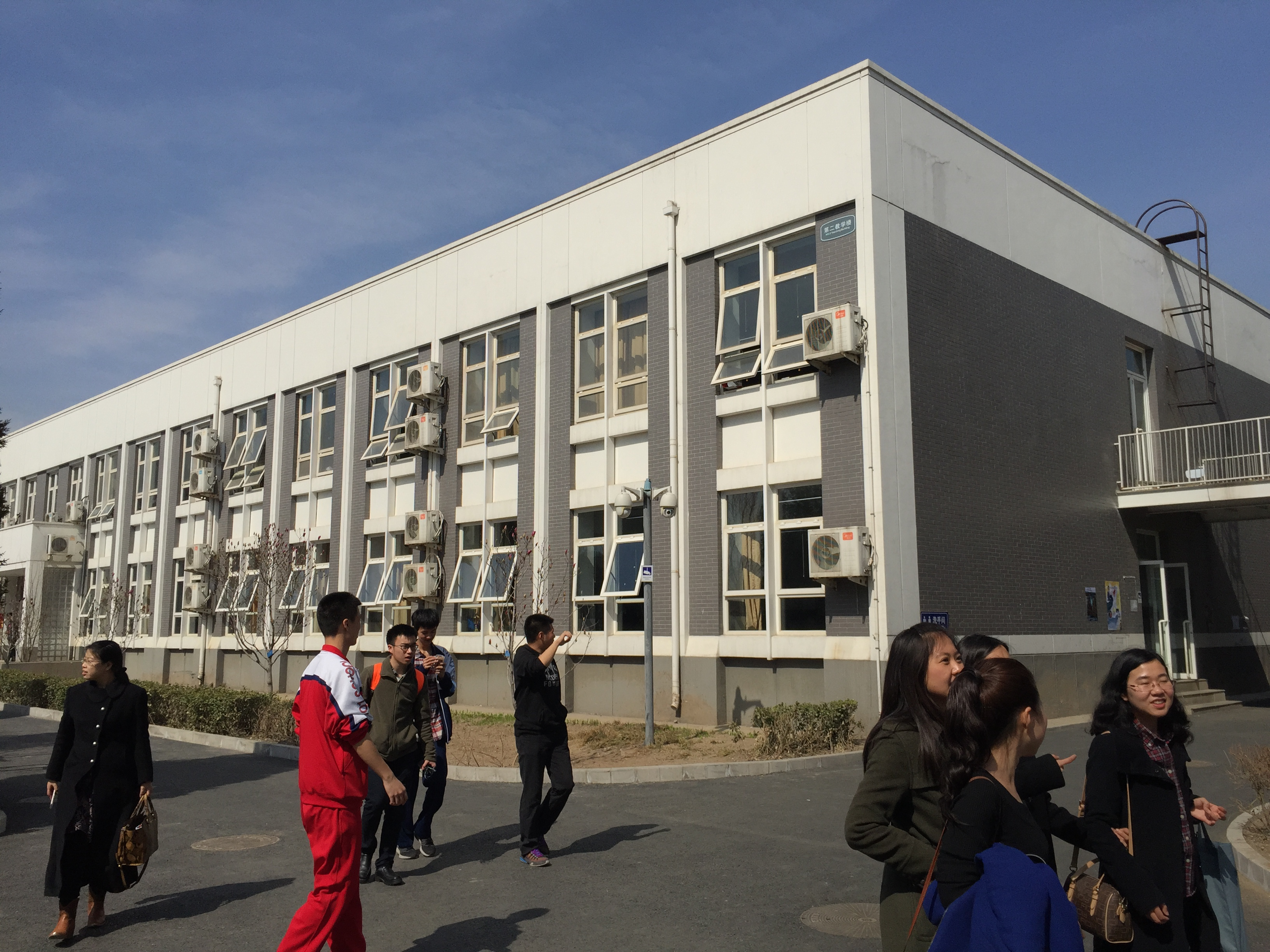 This building holds two grades of senior high school dept.